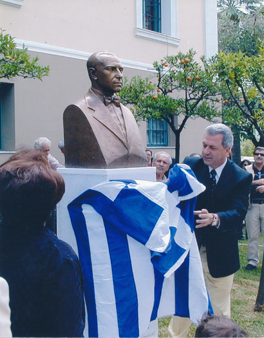 Unveil of Kostas Bastias bust in Athens, Greece